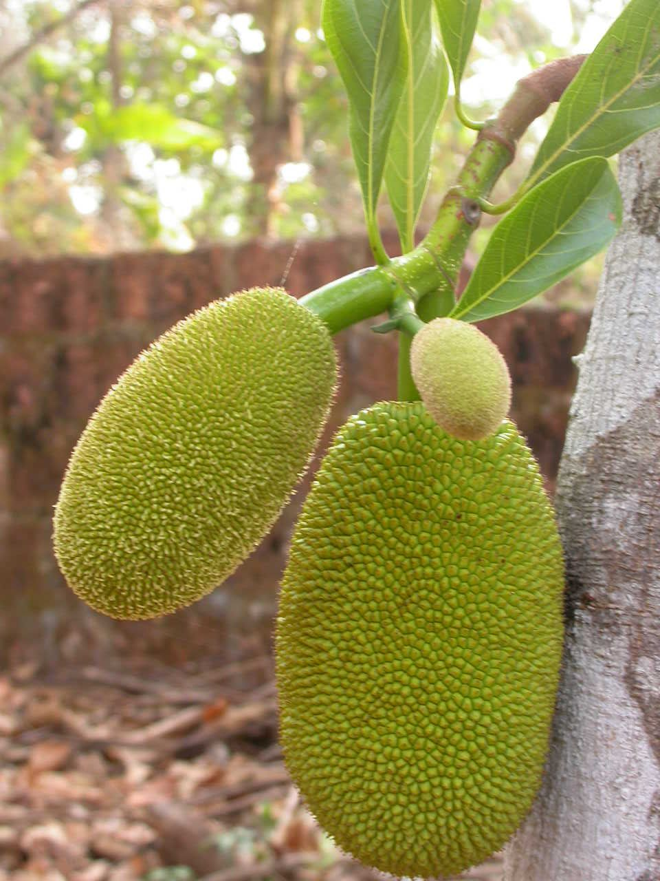 Young Jackfruit